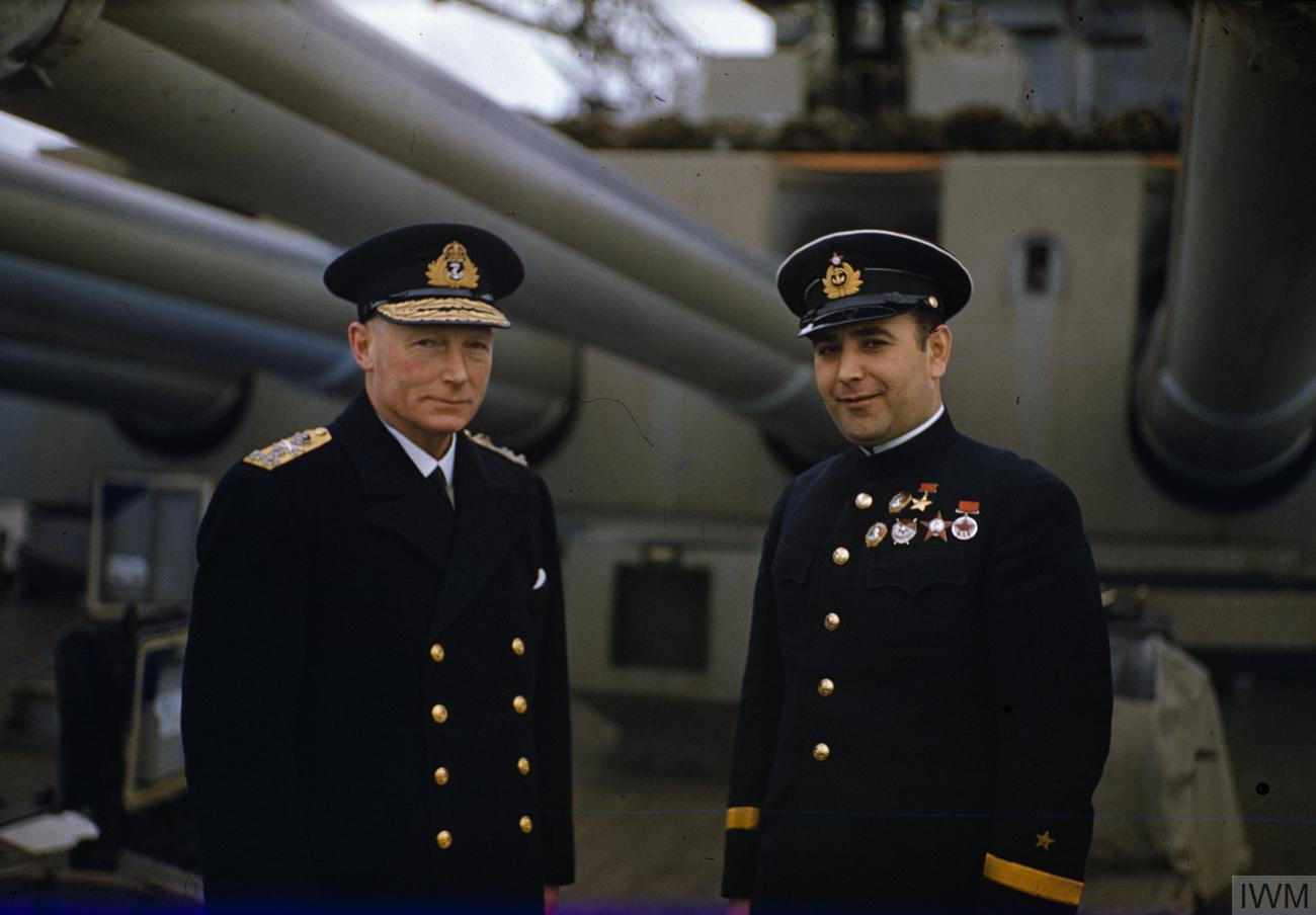 The Commander in Chief Home Fleet on Board HMS King George V, November 1942 The Commander in Chief Home Fleet, Admiral Sir John Tovey with Commodore Egipko, Russian Naval Liaison Officer on board HMS KING GEORGE V.